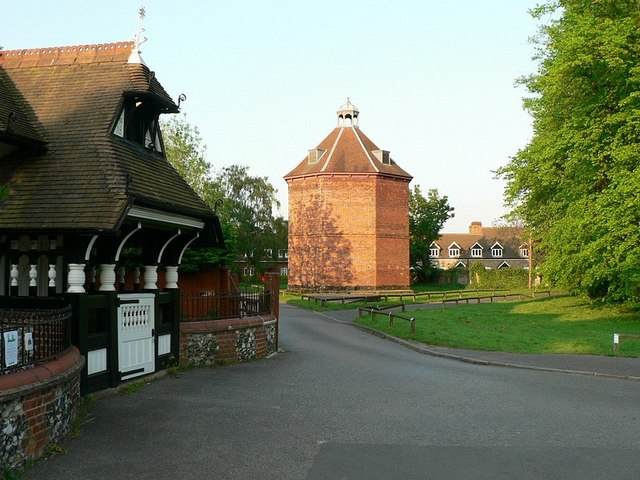 The Dovecote, Beddington Park The dovecote dates from the early 18th century and is probably the largest in existence. It would have supplied pigeon meat and eggs. The doorway of East Lodge is on the left, built 1877 according to the date over the door.